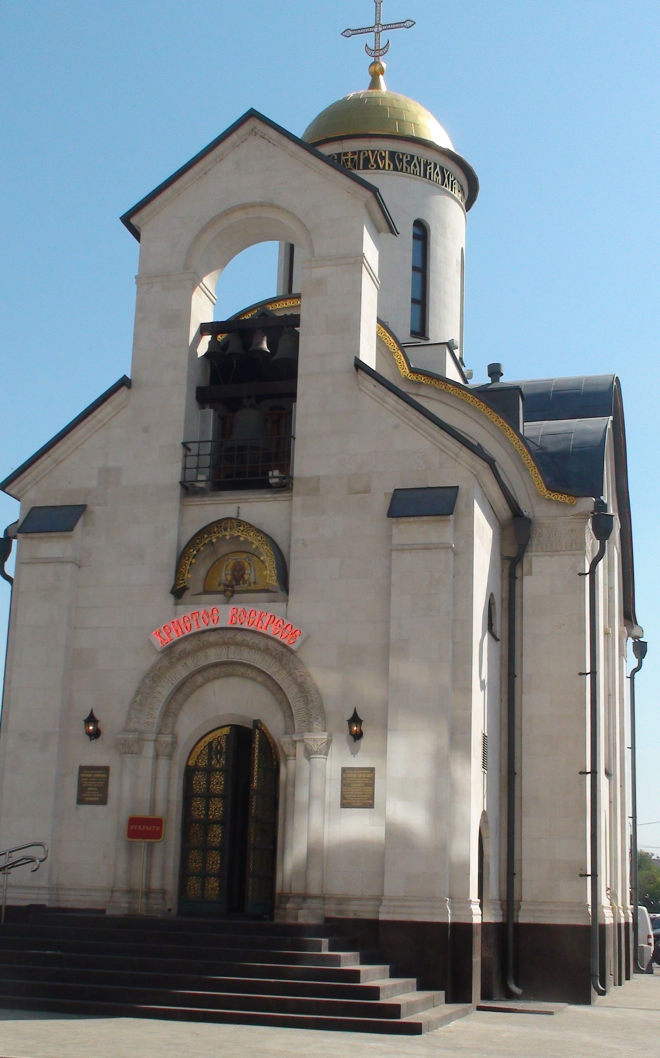 Храм Серафима Саровского Москва